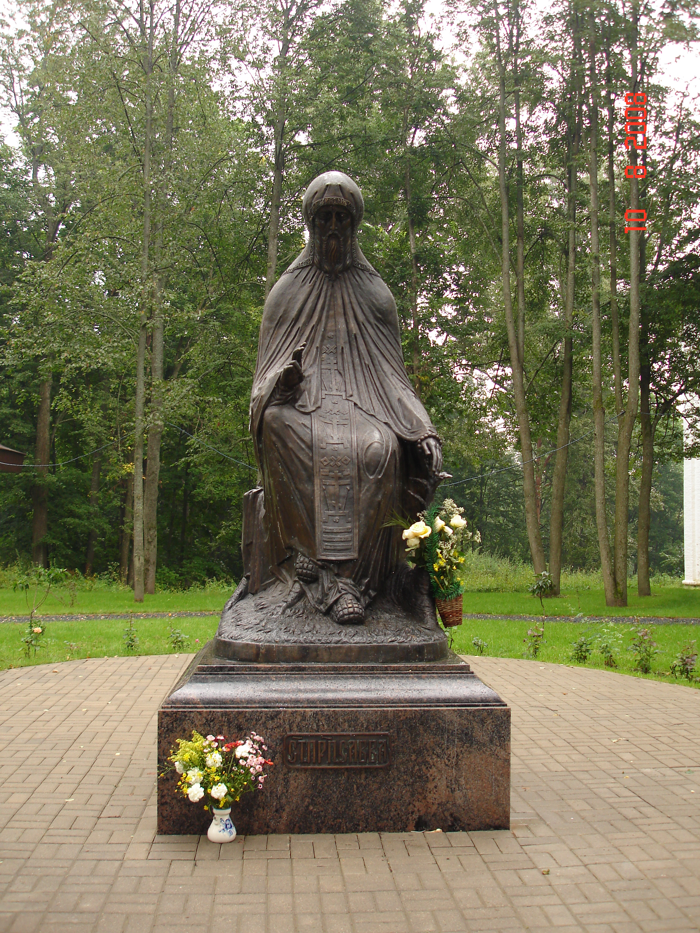 Monument of Saint Savva Storozhevsky in Zvenigorod